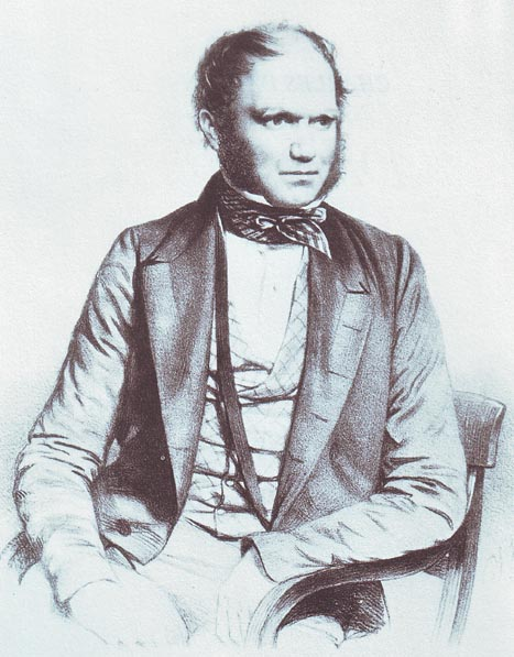 A portrait of Charles Darwin from 1849 by Thomas Herbert Maguire